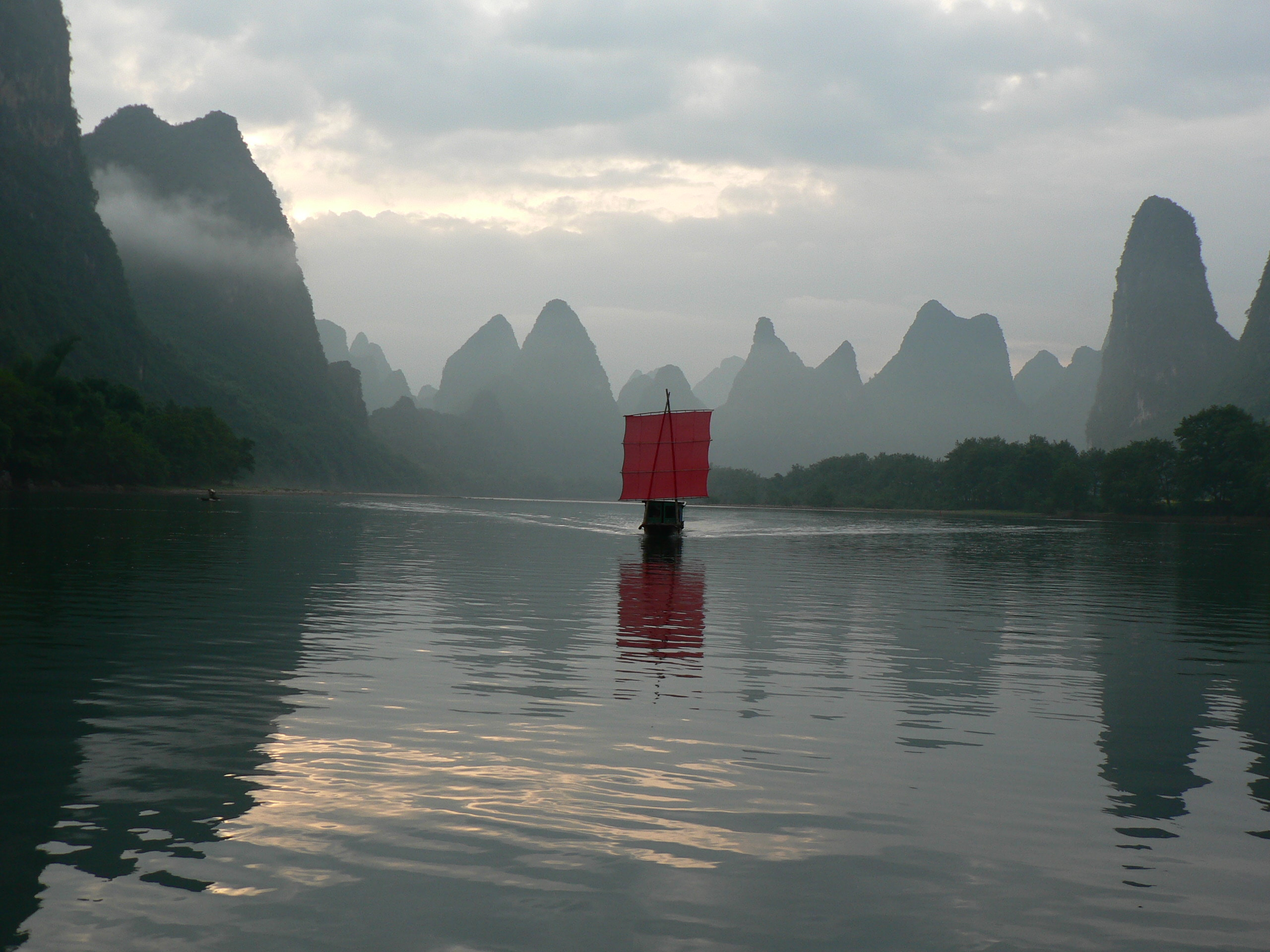 Lijiang River scenery